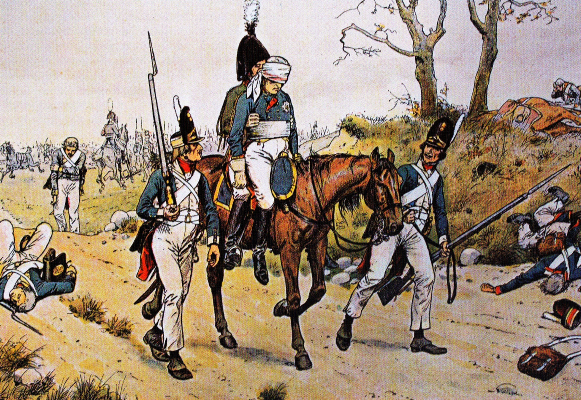 Prussian troops retreating after the disastrous double battle of Jena and Auerstadt.